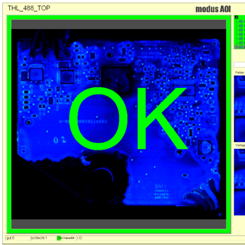 Conformal coating automated optical inspection (AOI) systems for inspection of printed circuit boards coated.